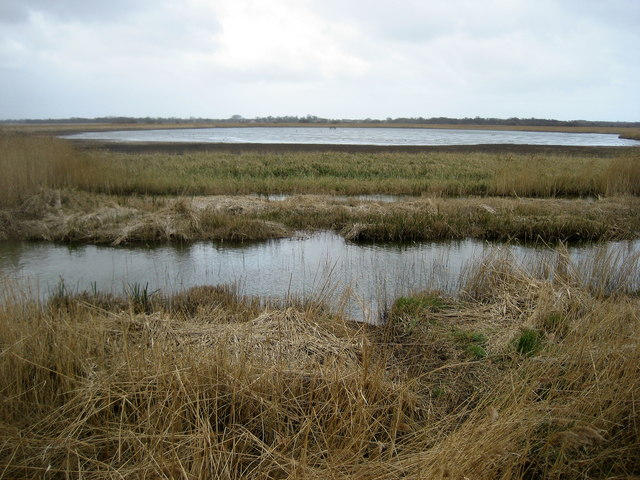 View over Hickling Broad Taken from the Weavers' Way, showing this vegetation choked broad that proves a wonderful magnet for birdlife and twitchers alike.